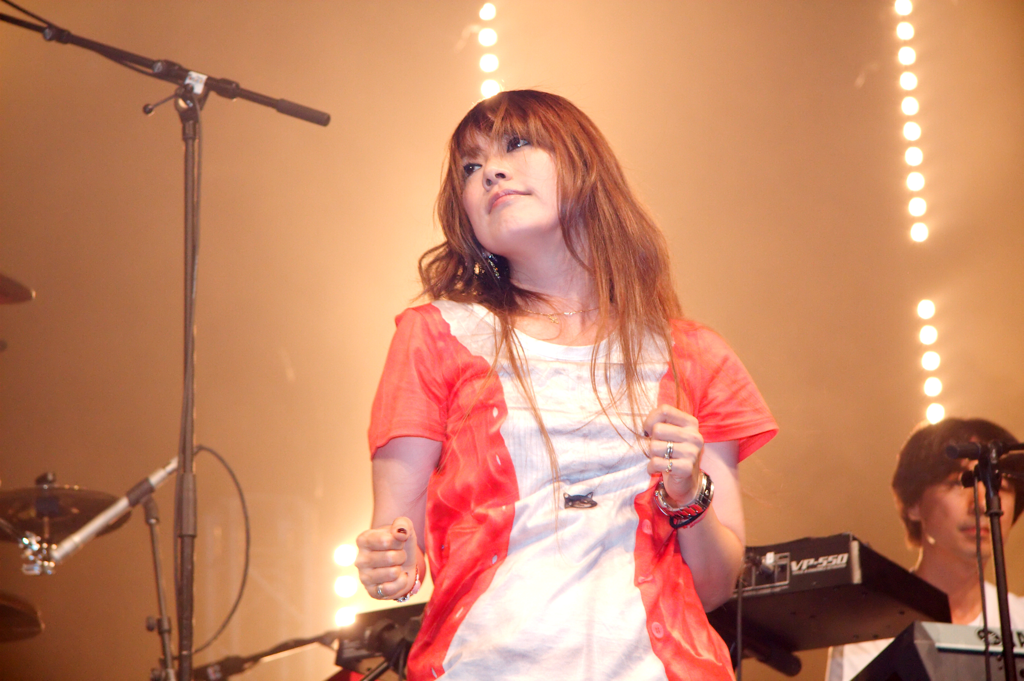 Puffy AmiYumi live at Japan Expo 2009 (Paris, France)